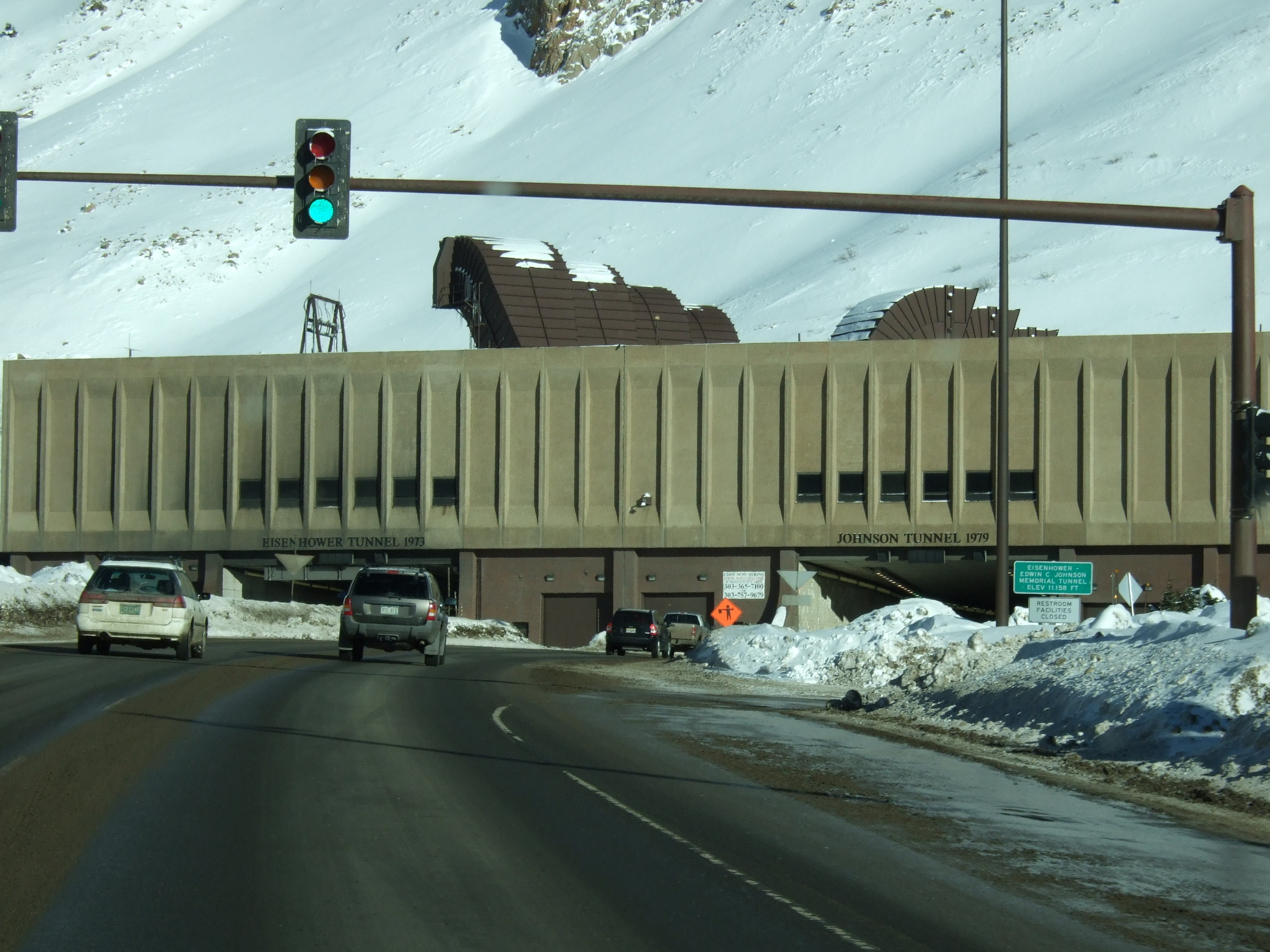 The west entrance to the Eisenhower Tunnel. Elevation: 3,390 meters.